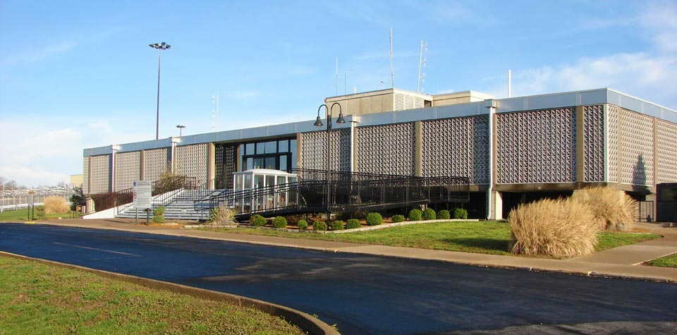 United States Penitentiary, Marion